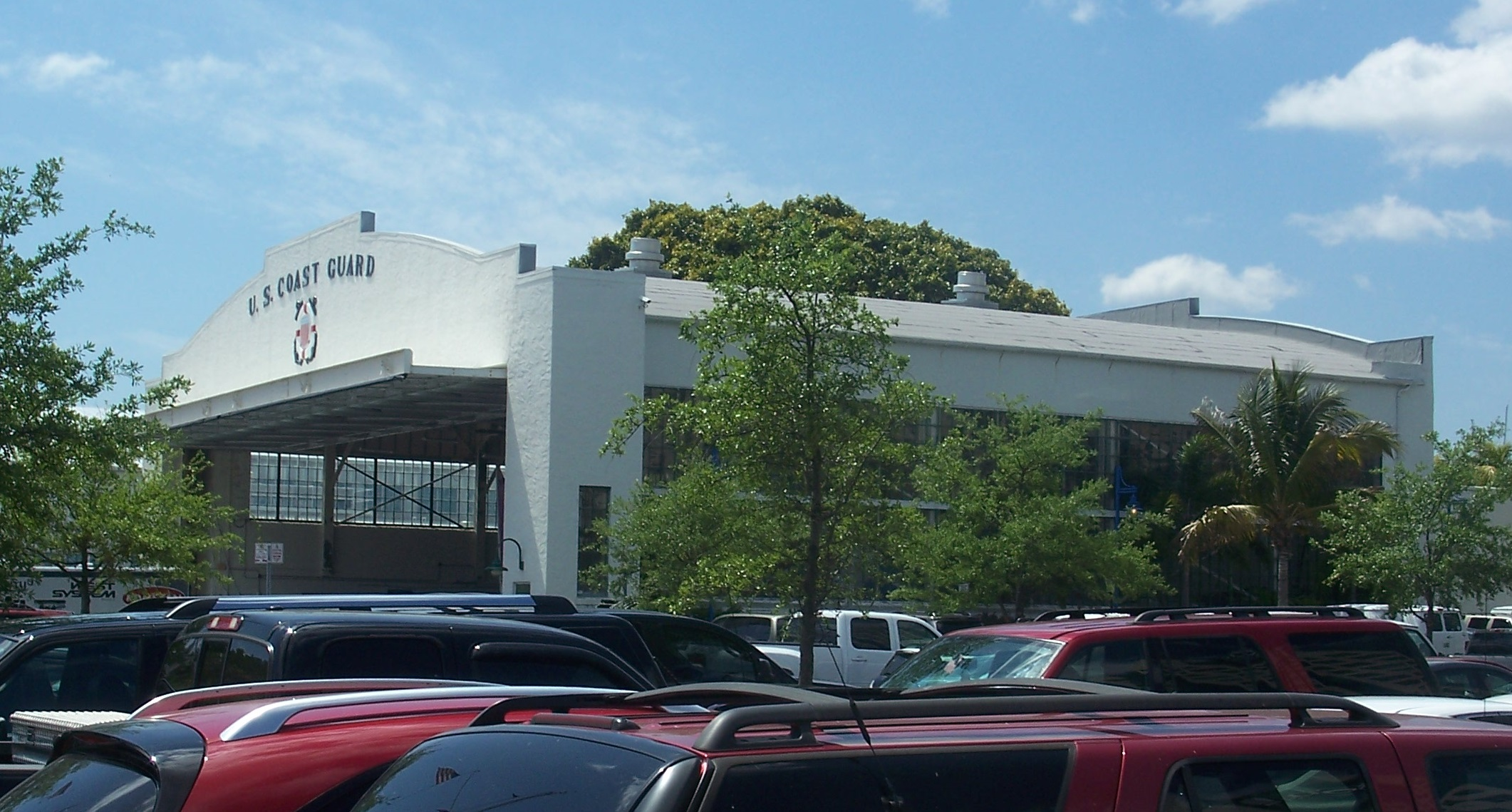 Coconut Grove, Florida: US Coast Guard Air Station Hangar at Dinner Key